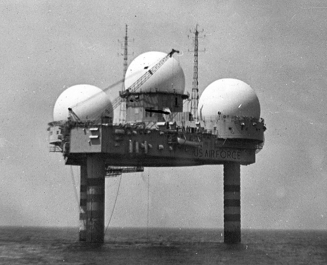 Photo of Texas Tower #4 south of Woods Hole, MA. This tower was lost on January 15, 1961, during a storm with a loss of 28 lives.